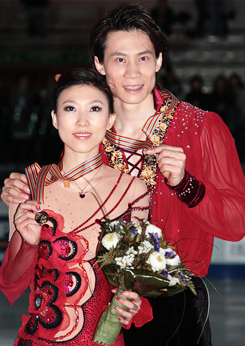 Tong Jian/Pang Qing at the 2010 World Championships.